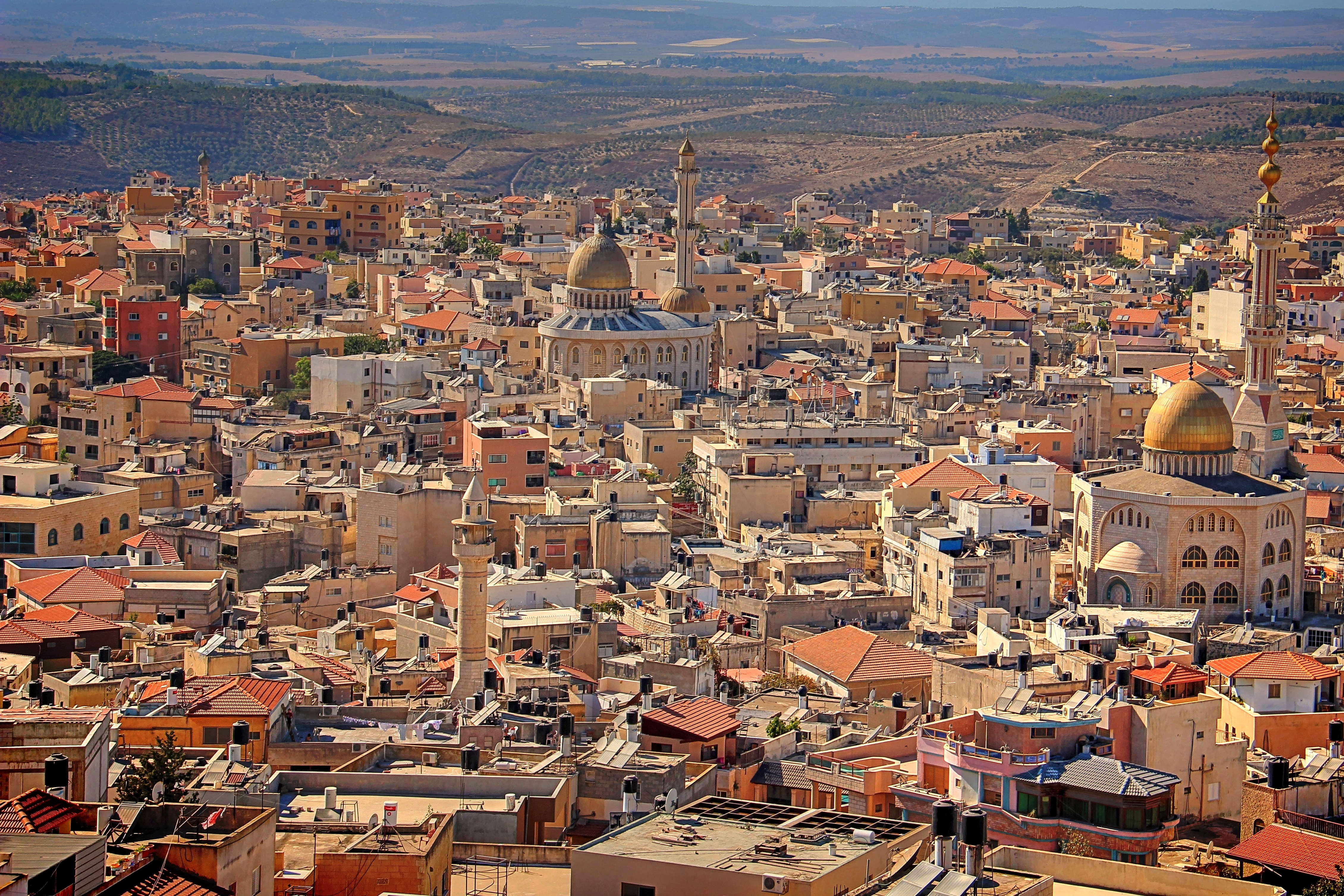 06/09/2013 Umm al-Fahm, Haifa, Israel Photo by: Moataz Tawfek Egbaria